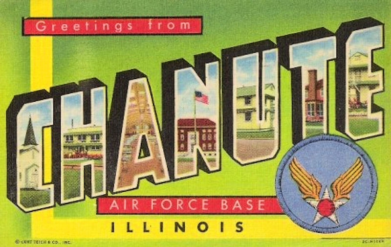 Korean War era postcard from Chanute Air Force Base, Illinois